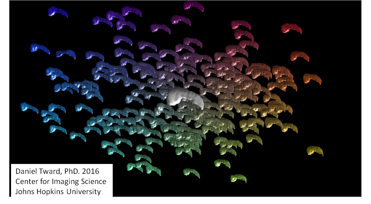 Figure showing the template at the origin of the two-dimensional coordinate system with synthesized structures.